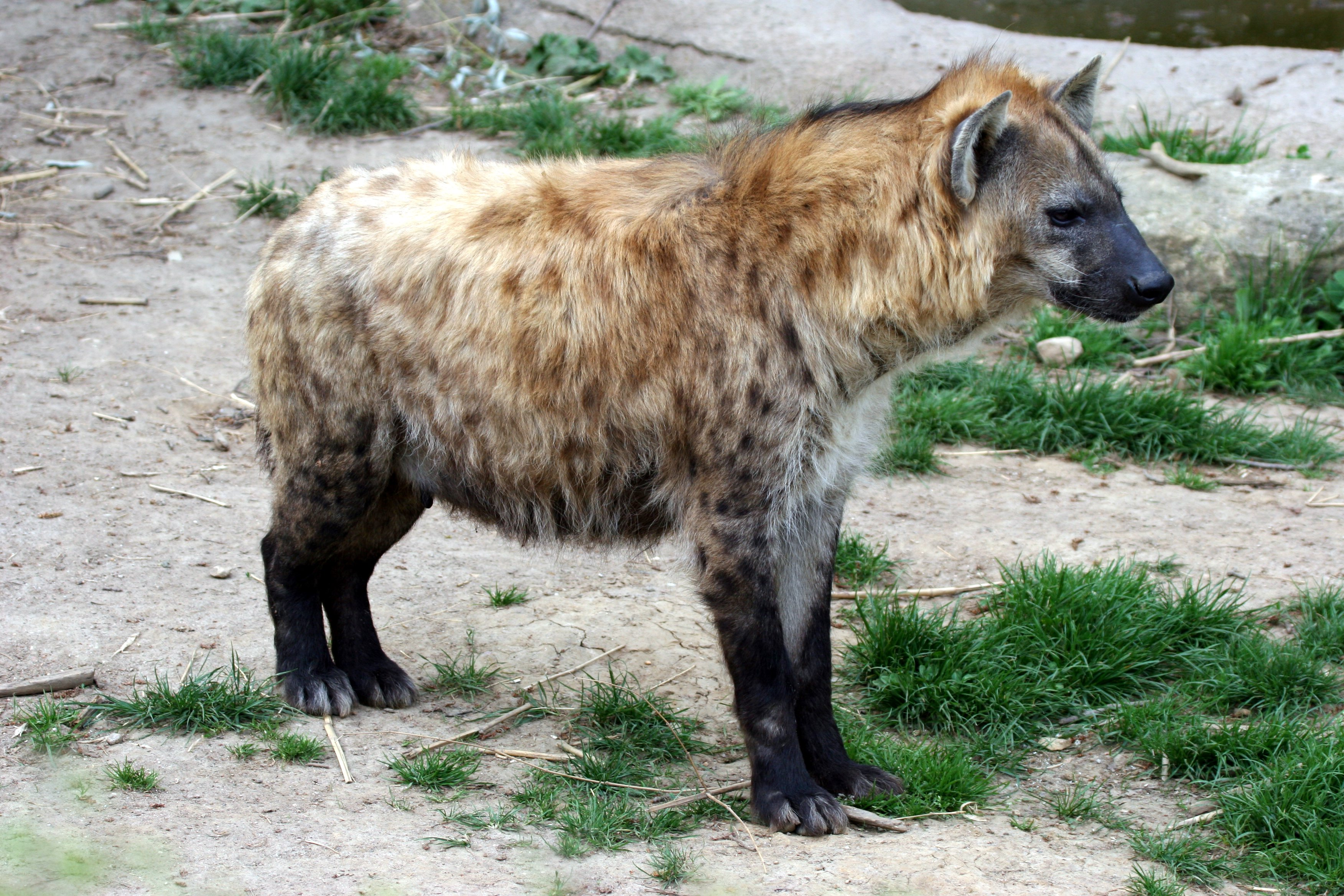 Spotted Hyena (Crocuta crocuta).